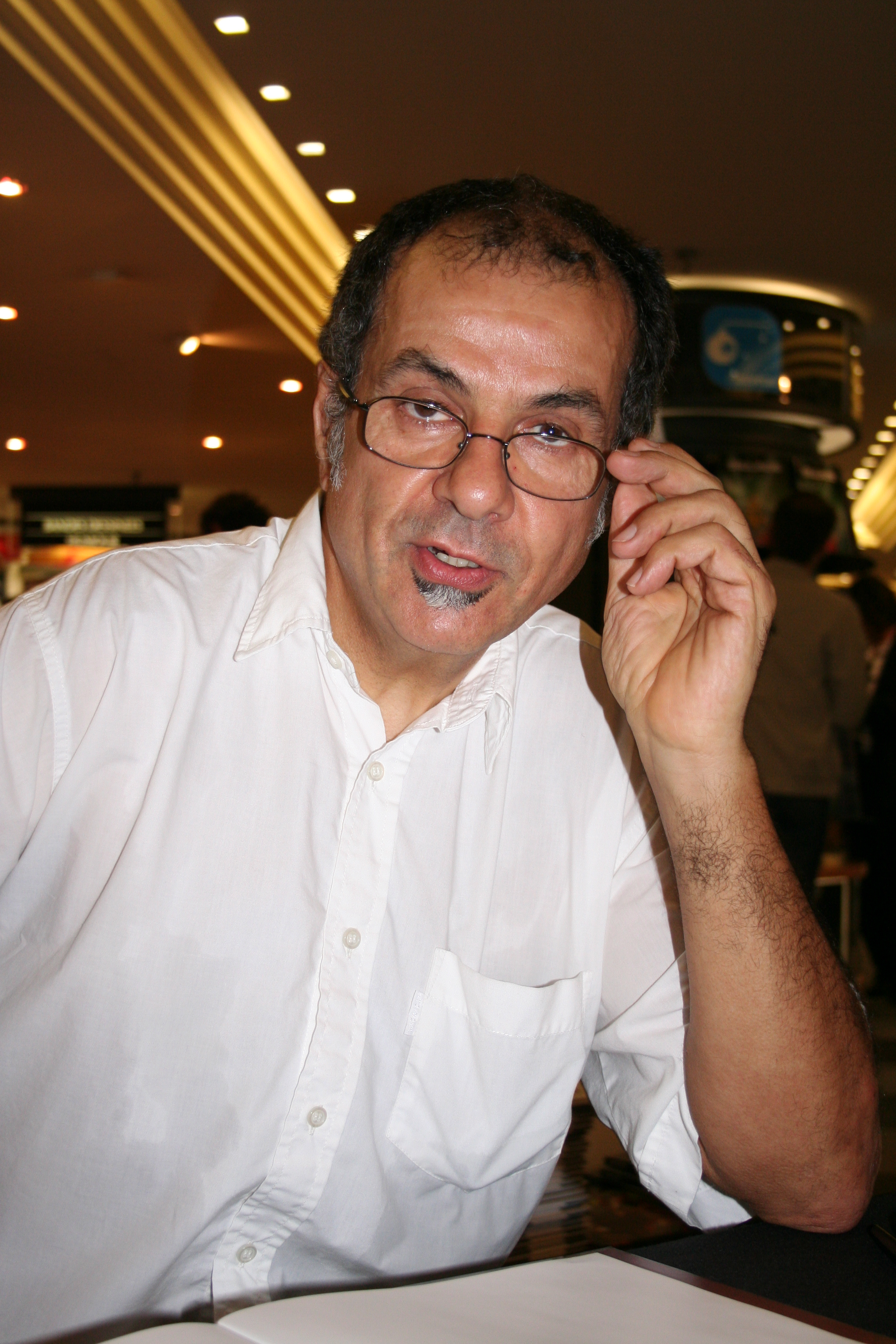 Autograph session with Al Coutelis at Fnac de La Défense-CNIT (Paris, France).